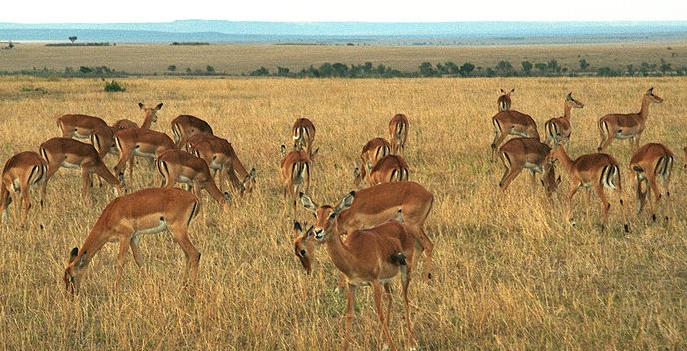 Cropped version of Jerzy Strzelecki's 1996 File:Aepyceros_melampus_(Masai_Mara,_Kenya).jpg